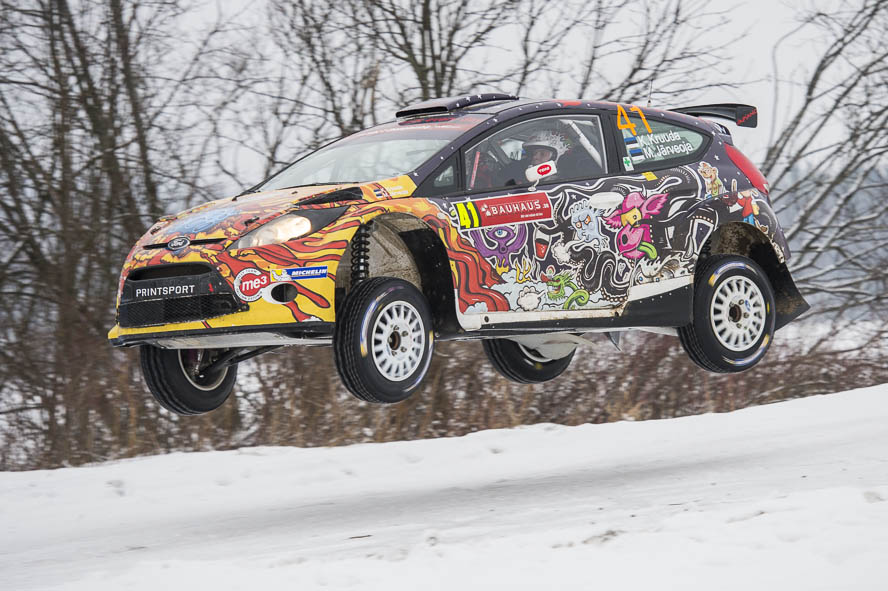 Rally Sweden 2014 Ford Fiesta S2000,Karl Kruuda,Kirkener 1,Martin Järveoja,Motorsport,Rally,Rally Sweden,Rallye,Rallye Schweden,SS3,WP3